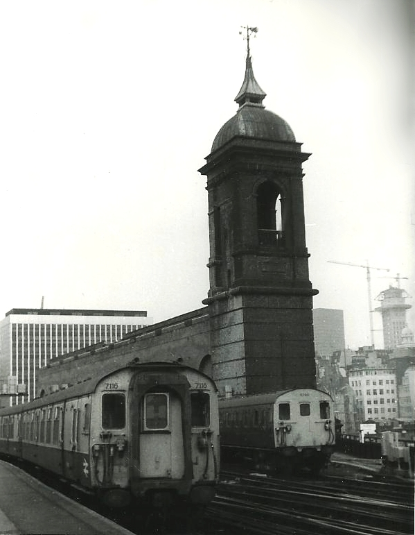 Cannon Street Station, 04/69. Scanned photograph taken with a Kowa SET camera.